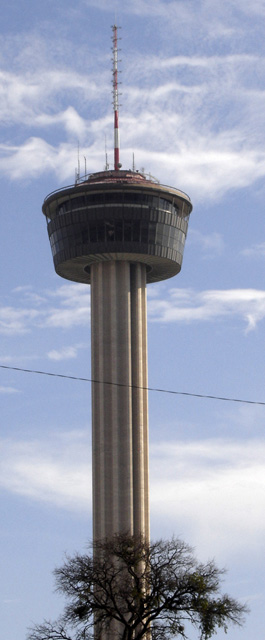 Tower of The Americas, San Antonio, Texas